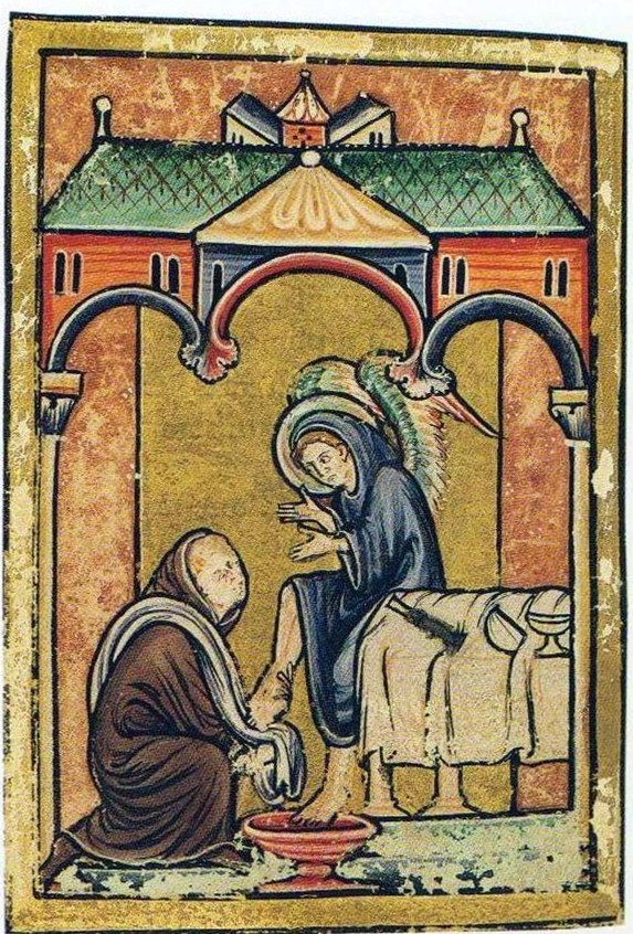 A miniature in the British Library Yates Thomson MS 26, Bede's Prose Life of St Cuthbert, depicting the miracle where Cuthbert washes the feet of a disguised angel